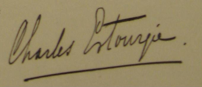 Signature of Charles Estourgie, Dutch architect.